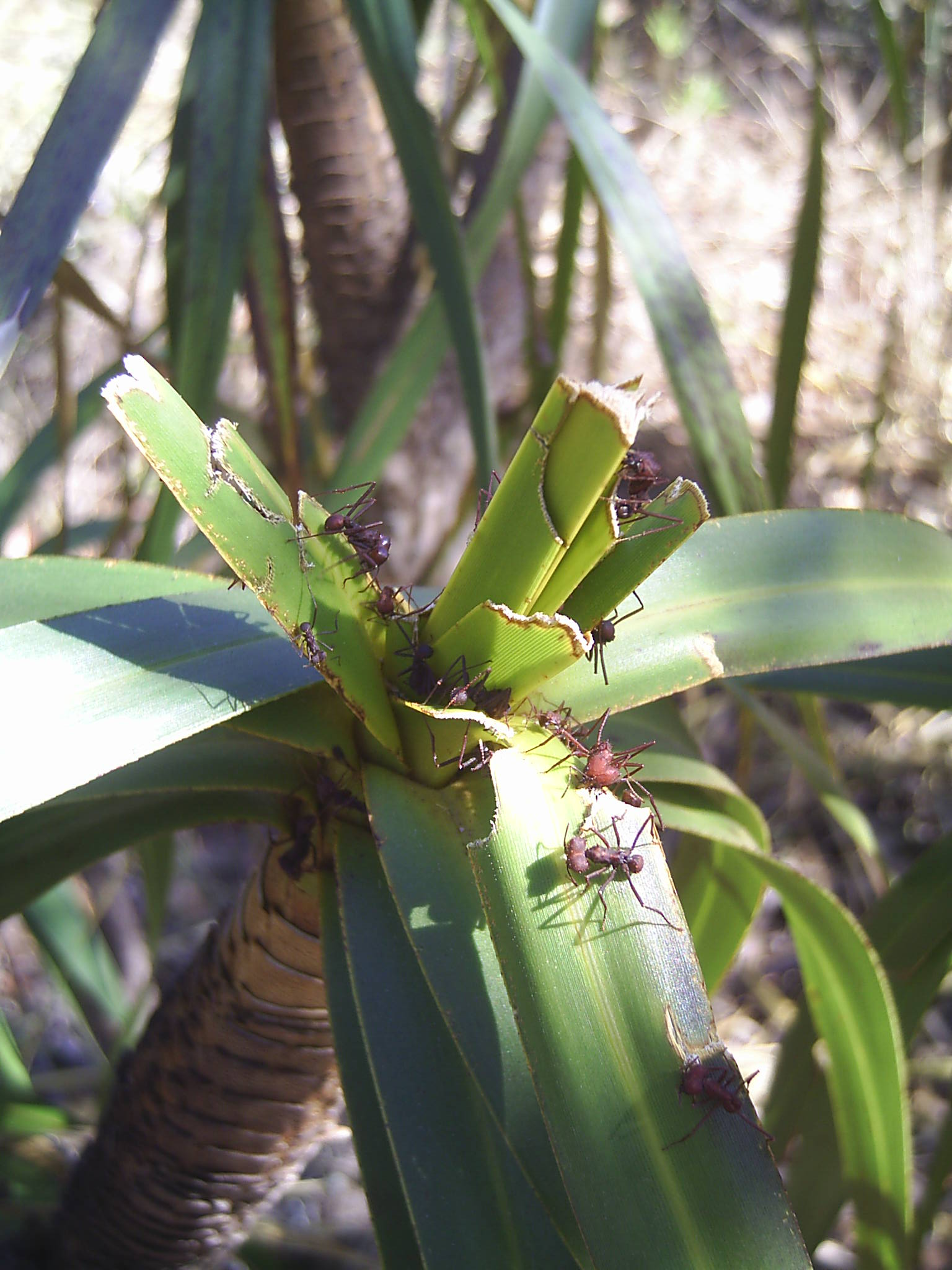 Herbivory by Sauva Ants on Vellozia squamata